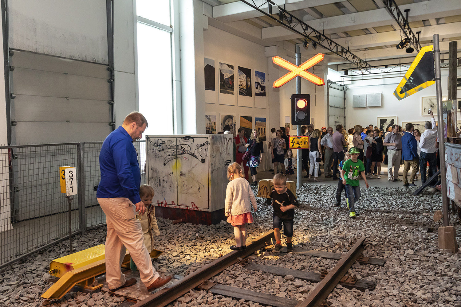 Photo of Mänttä Art Festival 2018. Artwork "Suomi Finland 5926" by Mikko Paakkonen & Aleksi Liimatainen.